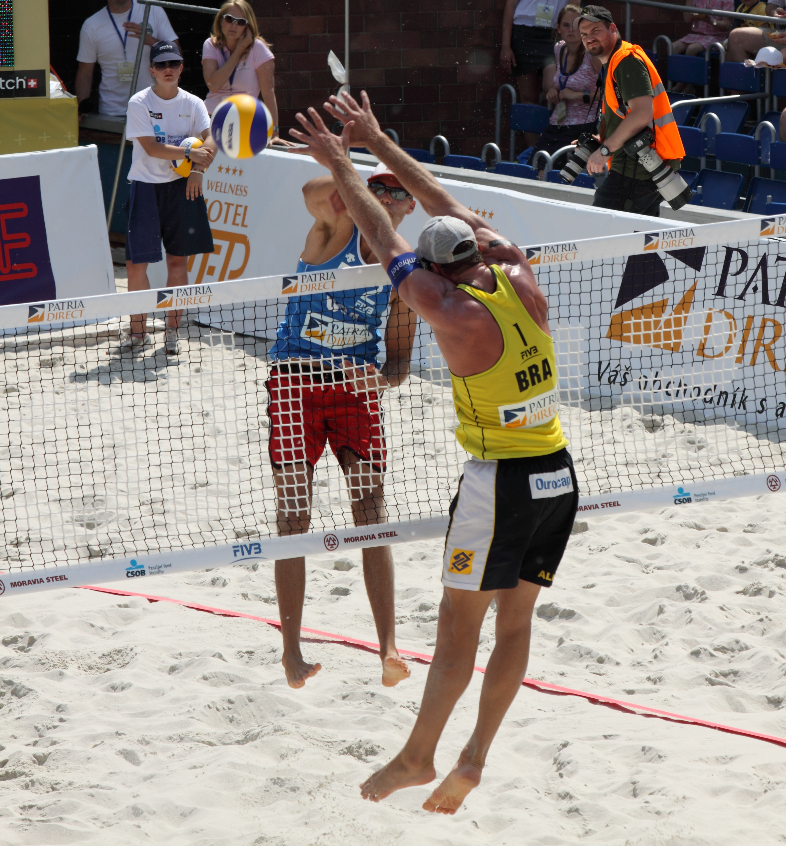 Phil Dalhausser attacking against Alison Cerutti at Patria Direct Open 2011